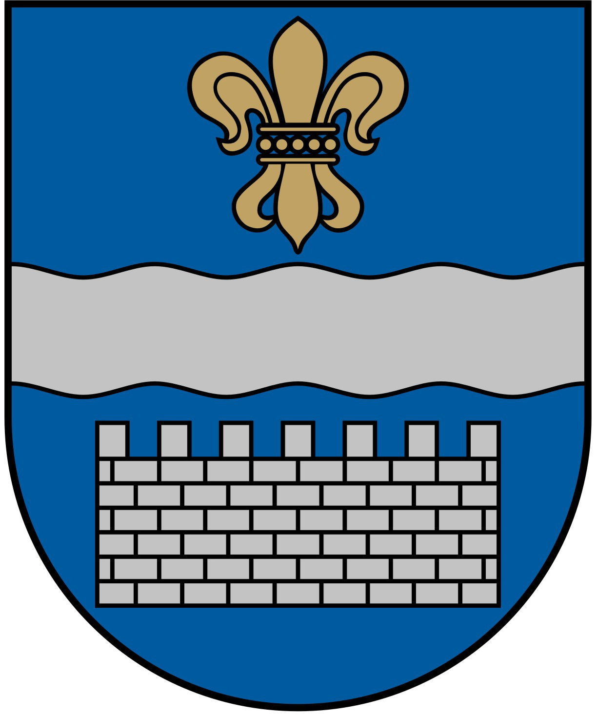 Coat of arms of the city of Daugavpils